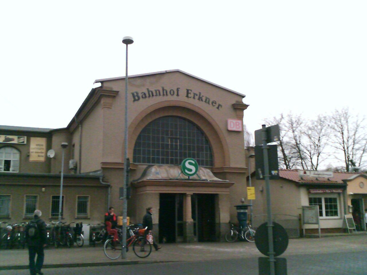 Entry building of the railway station in Erkner, Brandenburg, Germany.